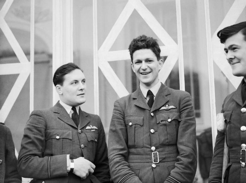 Photograph of Eric James Brindley Nicolson VC (centre) taken at the hospital where Flight Lieutenant Nicolson was recuperating from wounds sustained in the action in which he won his VC.